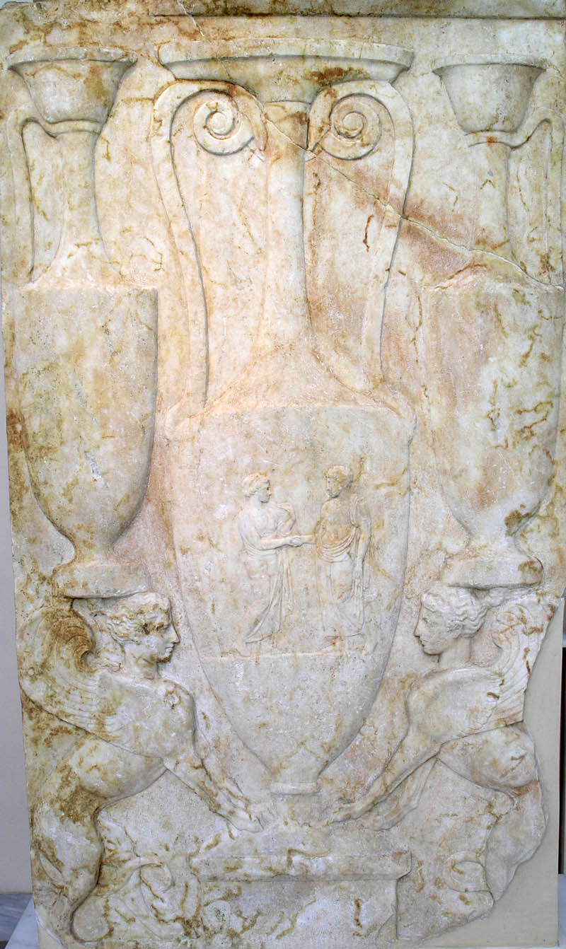 Funeray stele for an unknown Athenian from the deme of Skambonidai. 420-410 B.C. Exhibited in the covered courtyard at the Kerameikos Archaeological Museum (Athens).